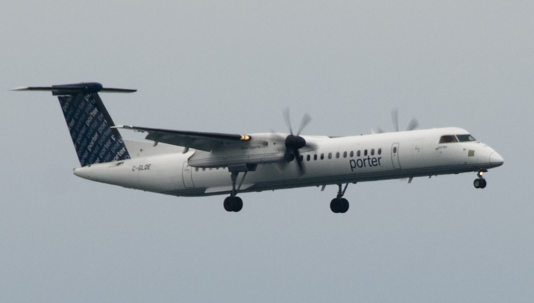 Porter Airlines Bombardier Q400 approaching Toronto City Airport